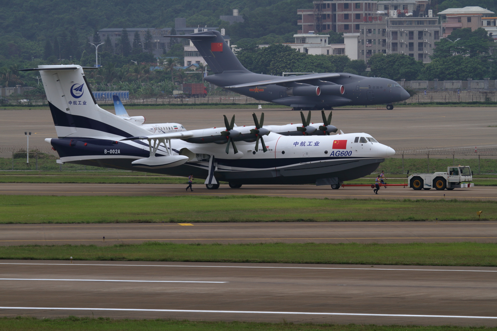 AVIC AG600